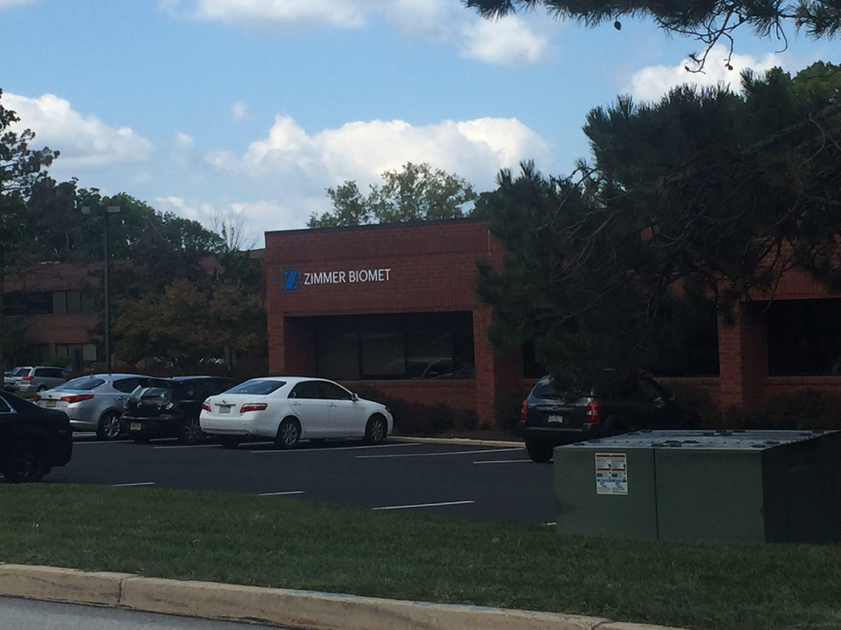 Zimmer biometric from my phone.